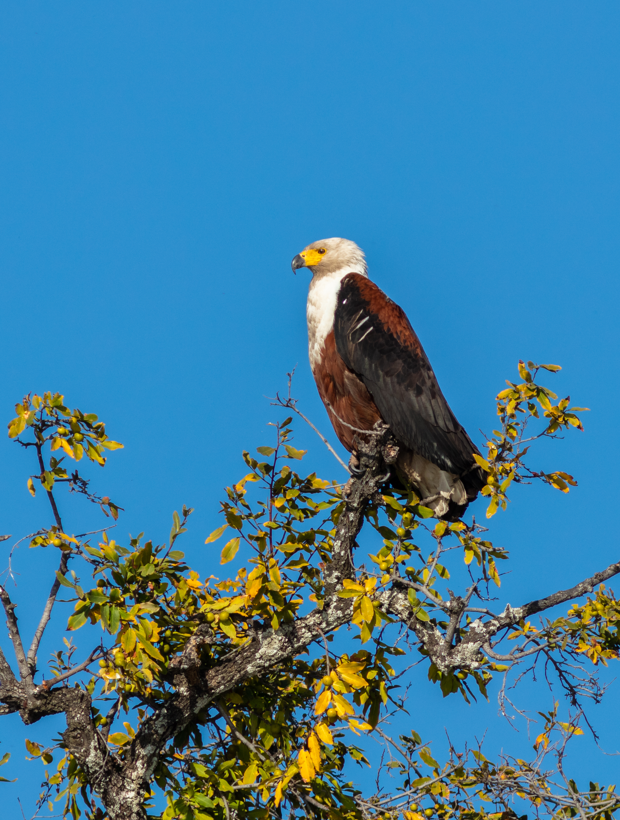 African fish eagle (Haliaeetus vocifer), Chobe National Park, Botswana